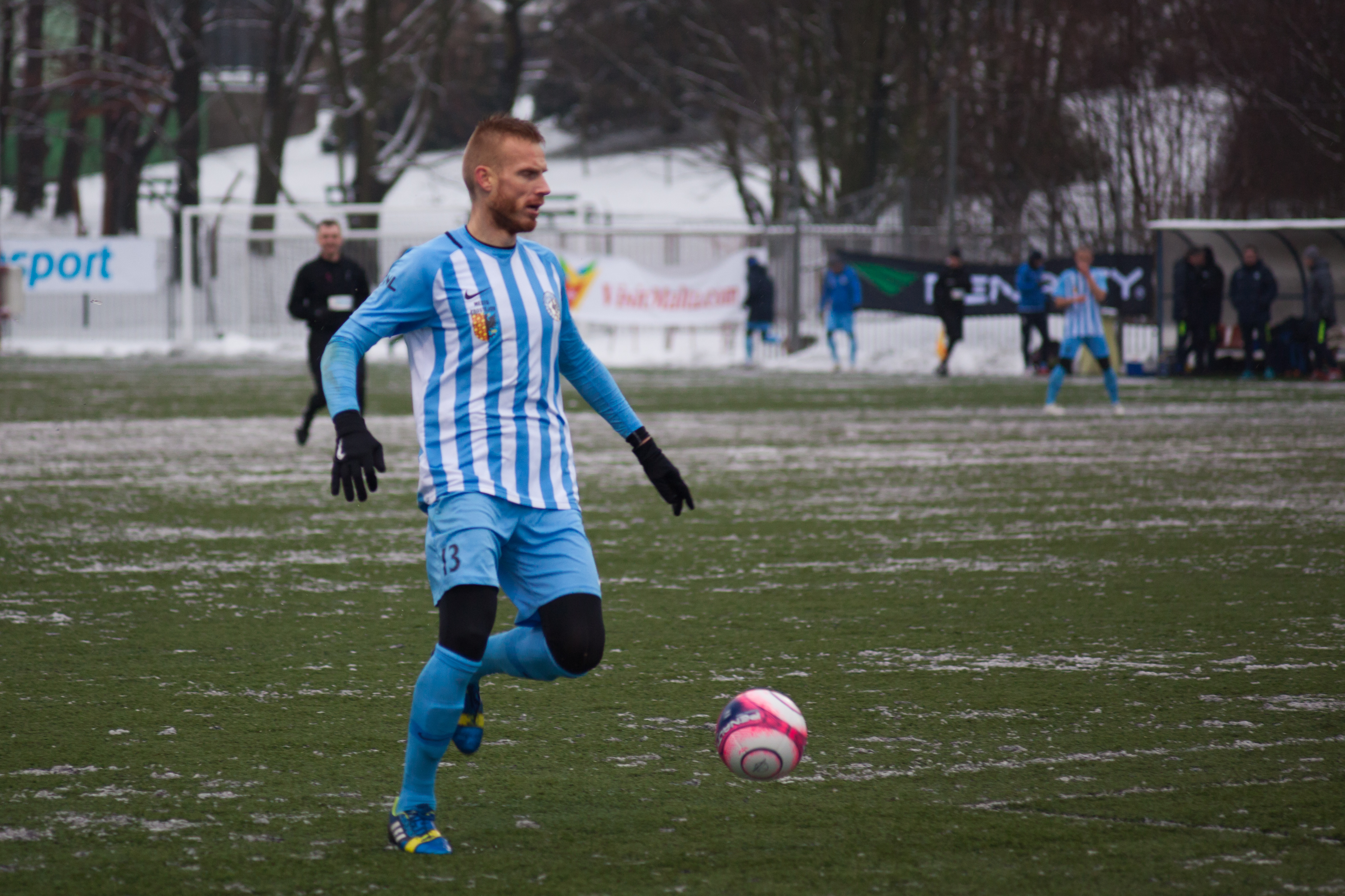 Match of winter Tipsport league between 1. SK Prostějov-1.FC Tatran Prešov (2:1), Group D played in Orlová, Karviná District, Moravian-Silesian Region, Czechia